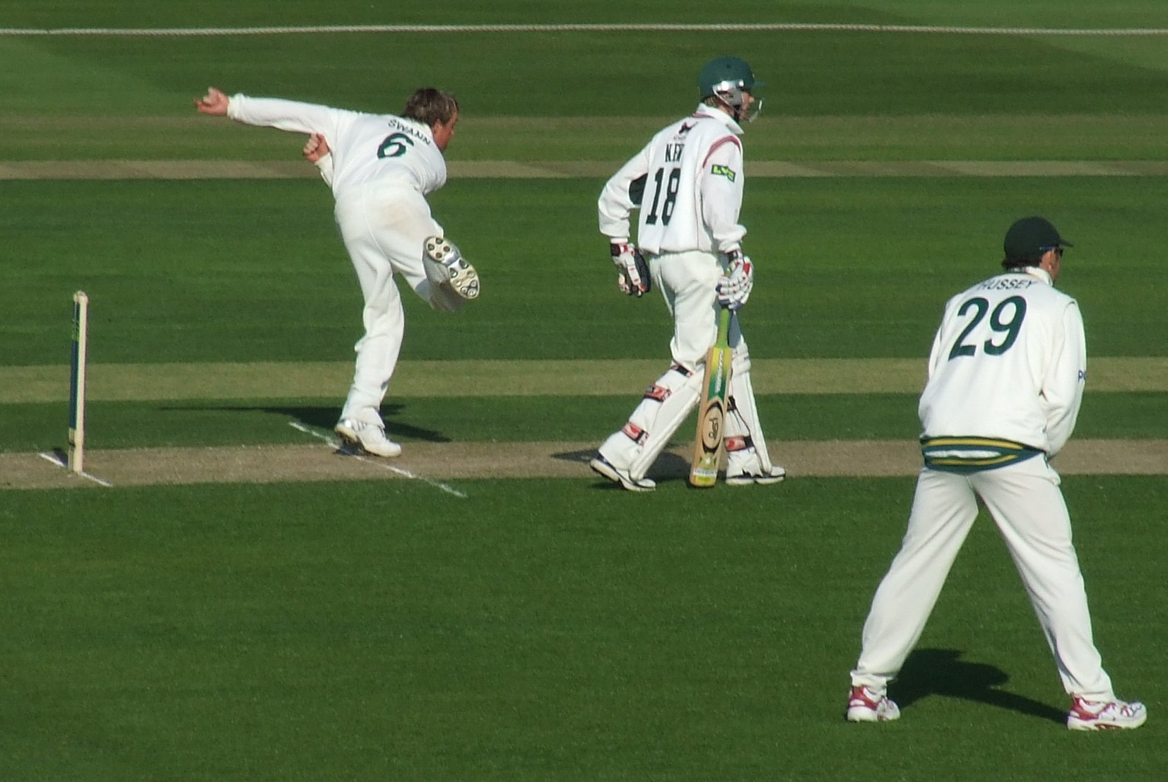 Graeme Swann bowls for Nottinghamshire in a County Championship match against Leicestershire at Trent Bridge. The batsman is Tom New and the fielder is David Hussey.